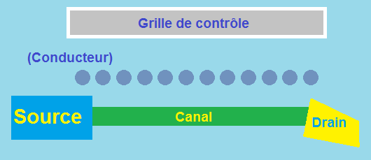 Schéma de fonctionnement d'une mémoire à nanocristaux.